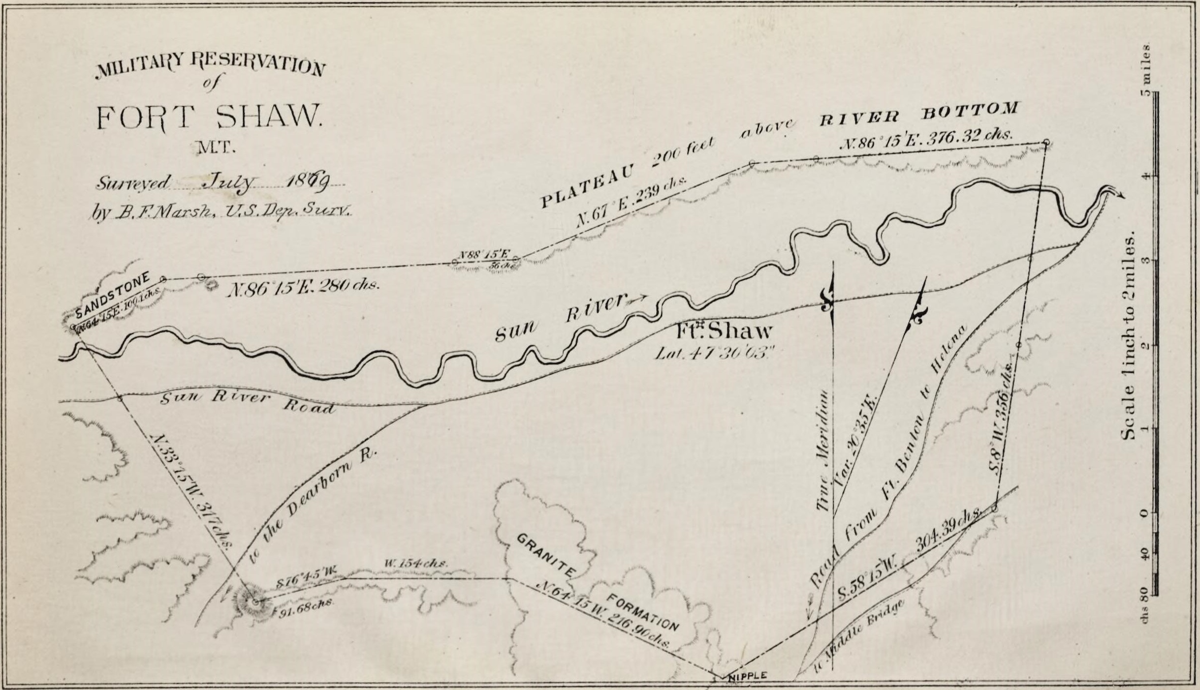 Map of the Military Reservation of Fort Shaw, Montana Territory, established July, 1867. Surveyed July, 1869.